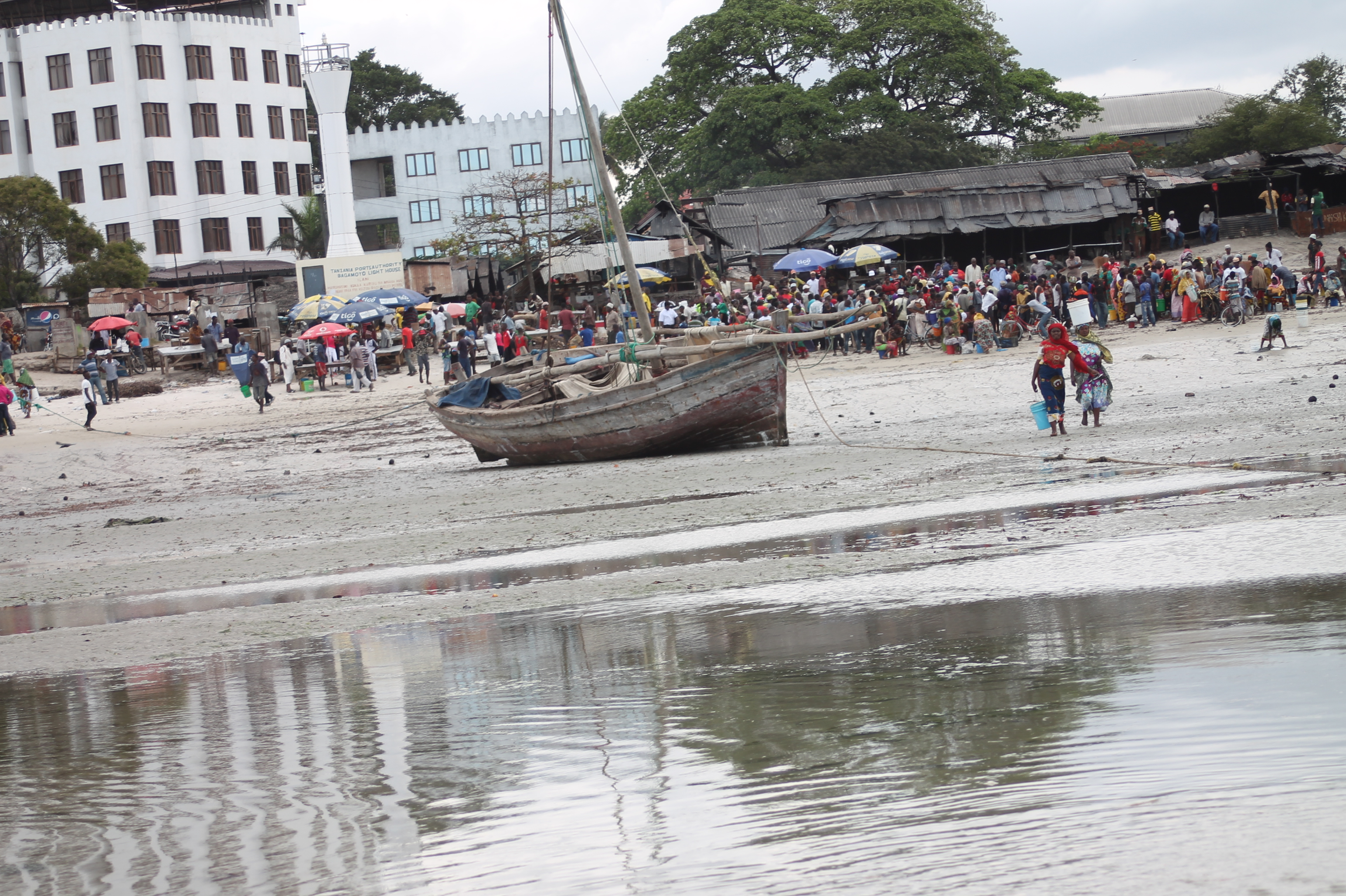 bagamoyo,Pwani,Tanzania.A fish market where fishermen s sell fish from the Indian ocean to fish vendors This is an image of music and dance from Tanzania